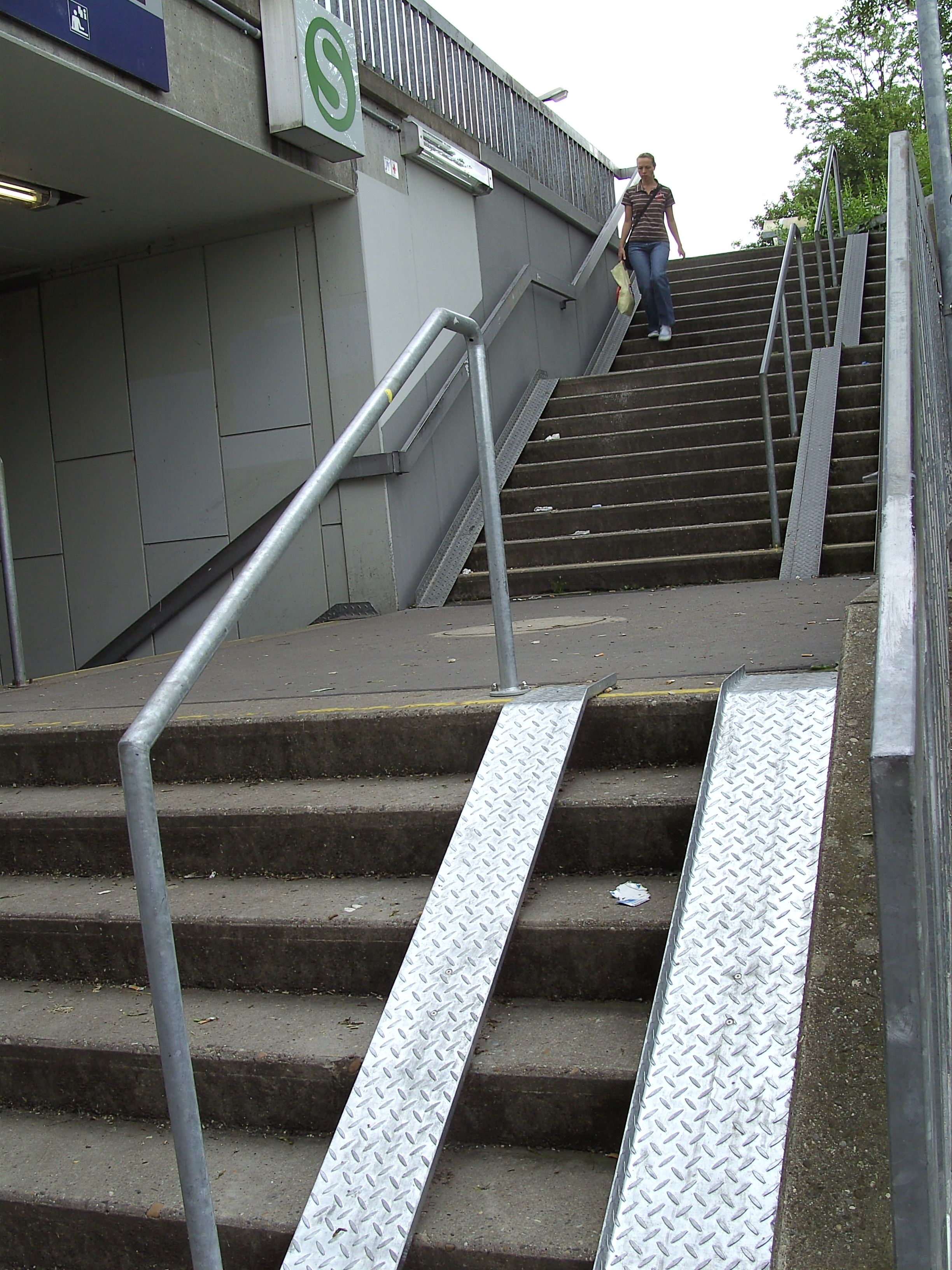 Walkway from Train station Esslingen am Neckar to Landratsamt Esslingen